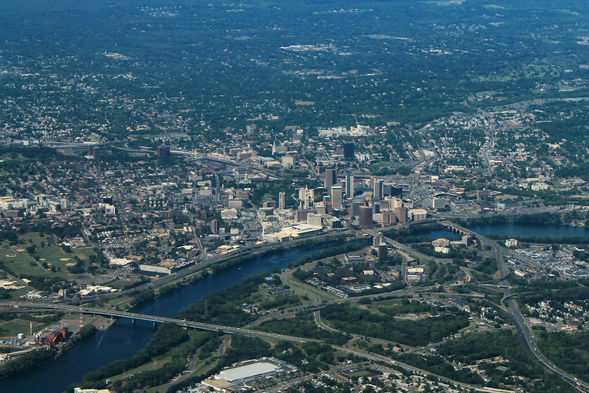 Hartford Connecticut Aerial